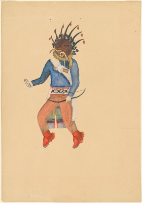 Drawing; gouache over graphite on wove paper; unframed: 15 1/2 x 10 3/4 in. (39.37 x 27.31 cm)